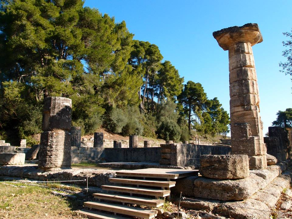 Hera temple in Olympia